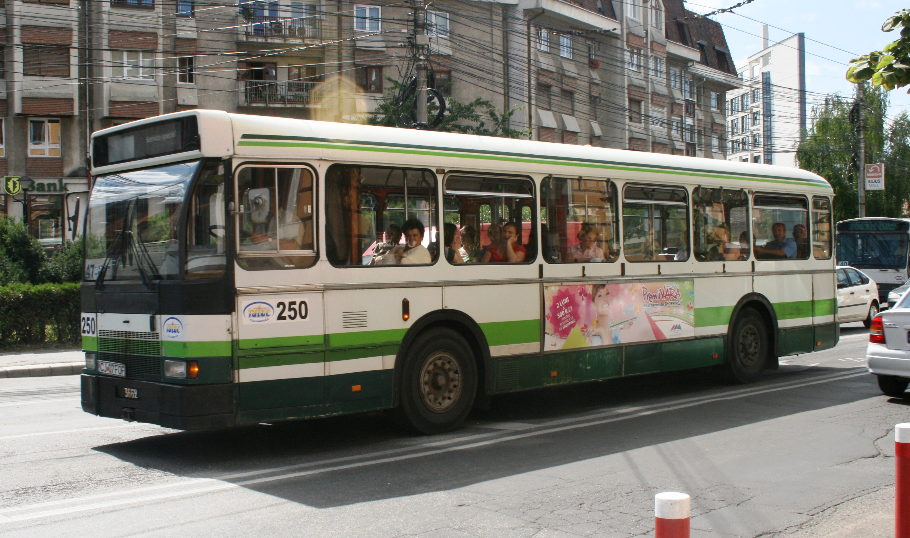 SC10 bus in Cluj, Roumania, 2011